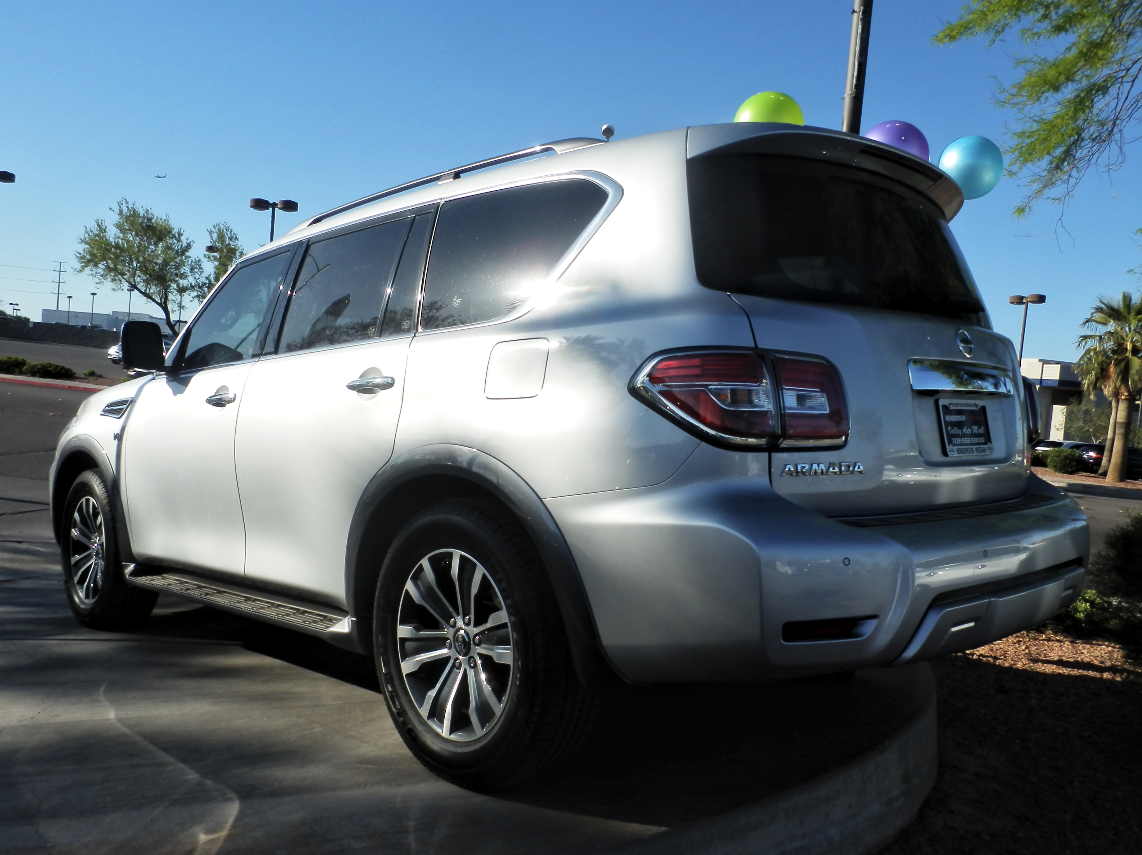 Nissan Armada in Las Vegas